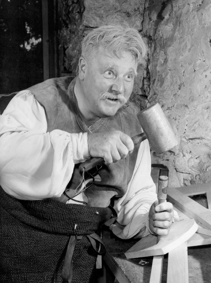 Photo of Walter Slezak as Gepetto from a 1957 presentation of Pinocchio.